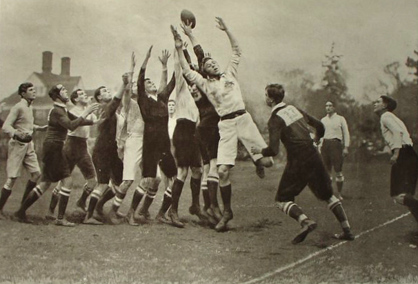 A print from L'Illustration magazine: South Africa Springboks on tour in 1906, here defeating Cambridge.